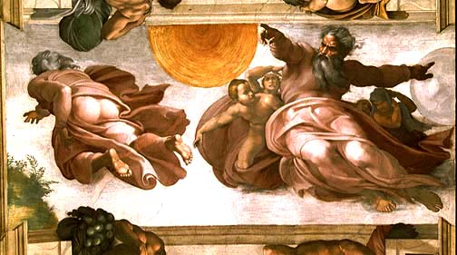 A detail of the Sistine Chapel ceiling, by Michelangelo.